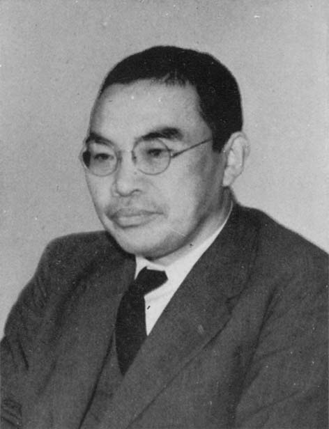 Kiyonosuke Uno.